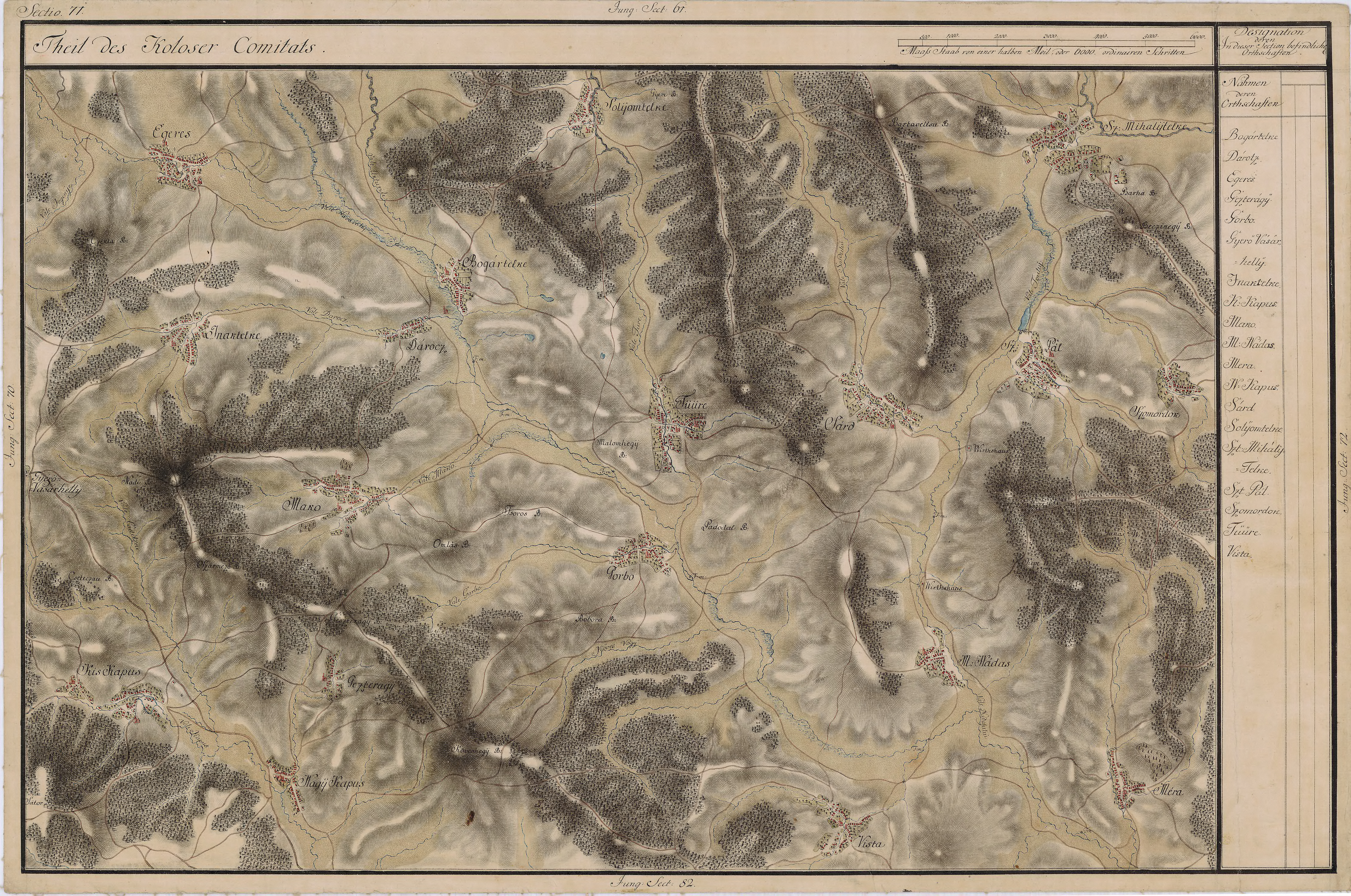 Grand Duchy of Transylvania, 1769-1773. Josephinische Landaufnahme pg.071Română: Harta Iosefină a Transilvaniei, 1769-1773. Josephinische Landaufnahme pg.071